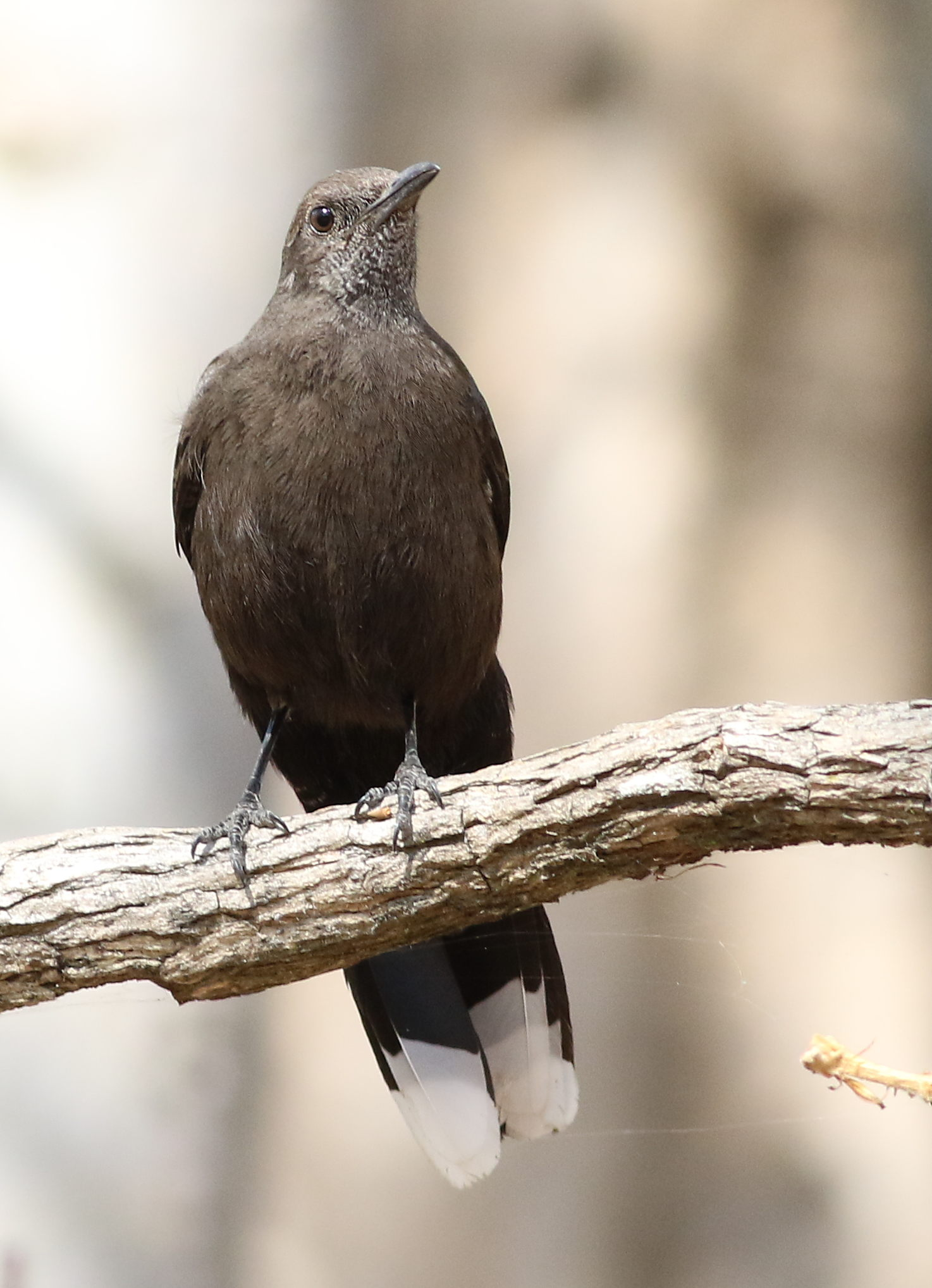 Boulder chat, Pinarornis plumosus, at Lake Chivero, Harare, Zimbabwe.